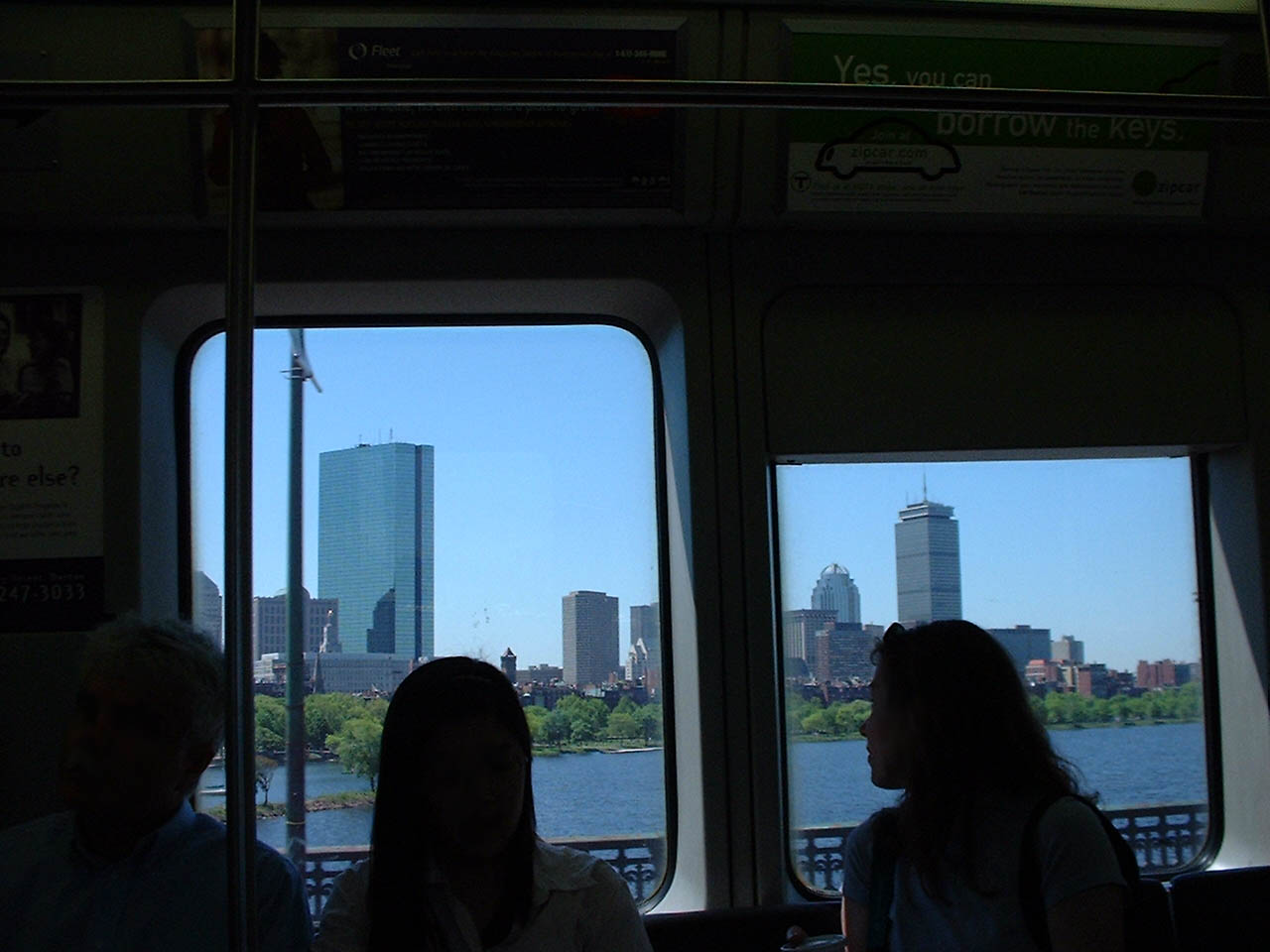 View of Boston from an inbound Red Line train as it crosses the Longfellow Bridge between Kendall/MIT and Charles/MGH stations. The Charles River, John Hancock Tower and the Prudential Center Tower are visible through the train windows.